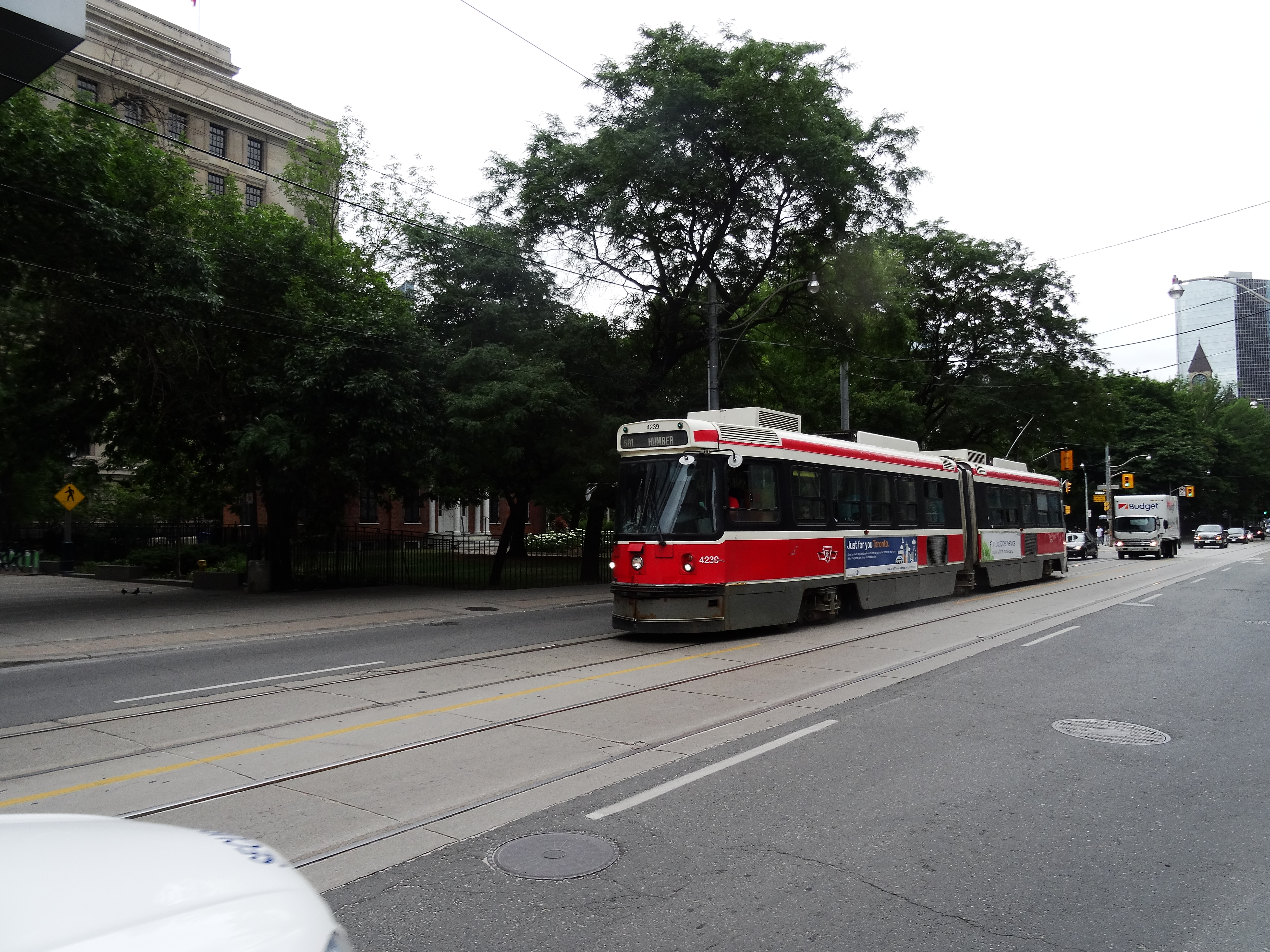 streetcar on Queen, between University and McCaul, 2016 07 16 (2).JPG